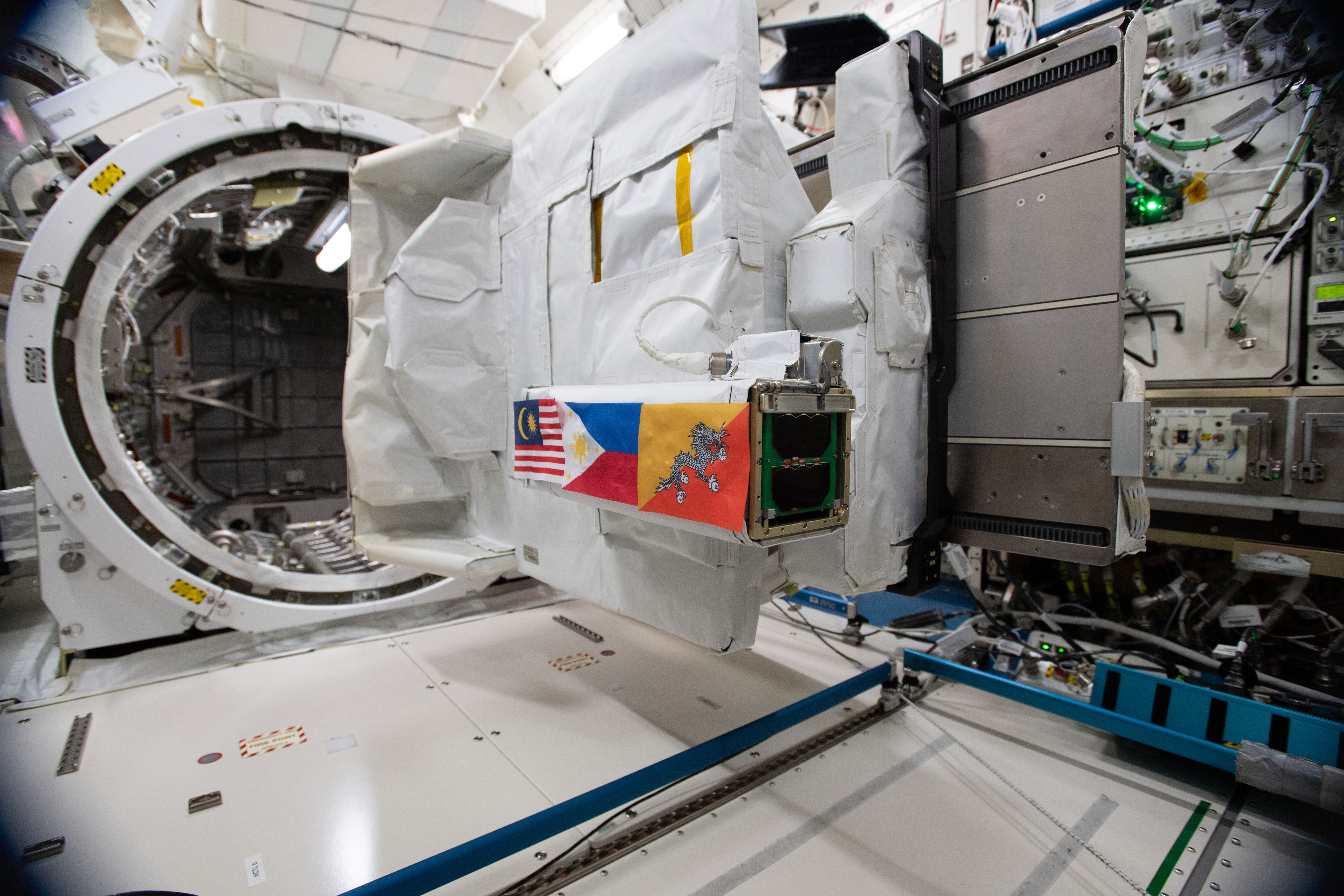 A view of the Japanese Experiment Module (JEM) Airlock (AL) slide table retraction from Japanese Experiment Module (JPM) during JSSOD-9 operations. The JEM Small Satellite Orbital Deployer (J-SSOD) provides a novel, safe, small satellite launching capability to the International Space Station (ISS). Once the J-SSOD including satellite install cases with small satellites are installed on the Multi-Purpose Experiment Platform (MPEP) by crewmembers, it is passed through the JEM airlock for retrieval, positioning and deployment by the JEMRMS.